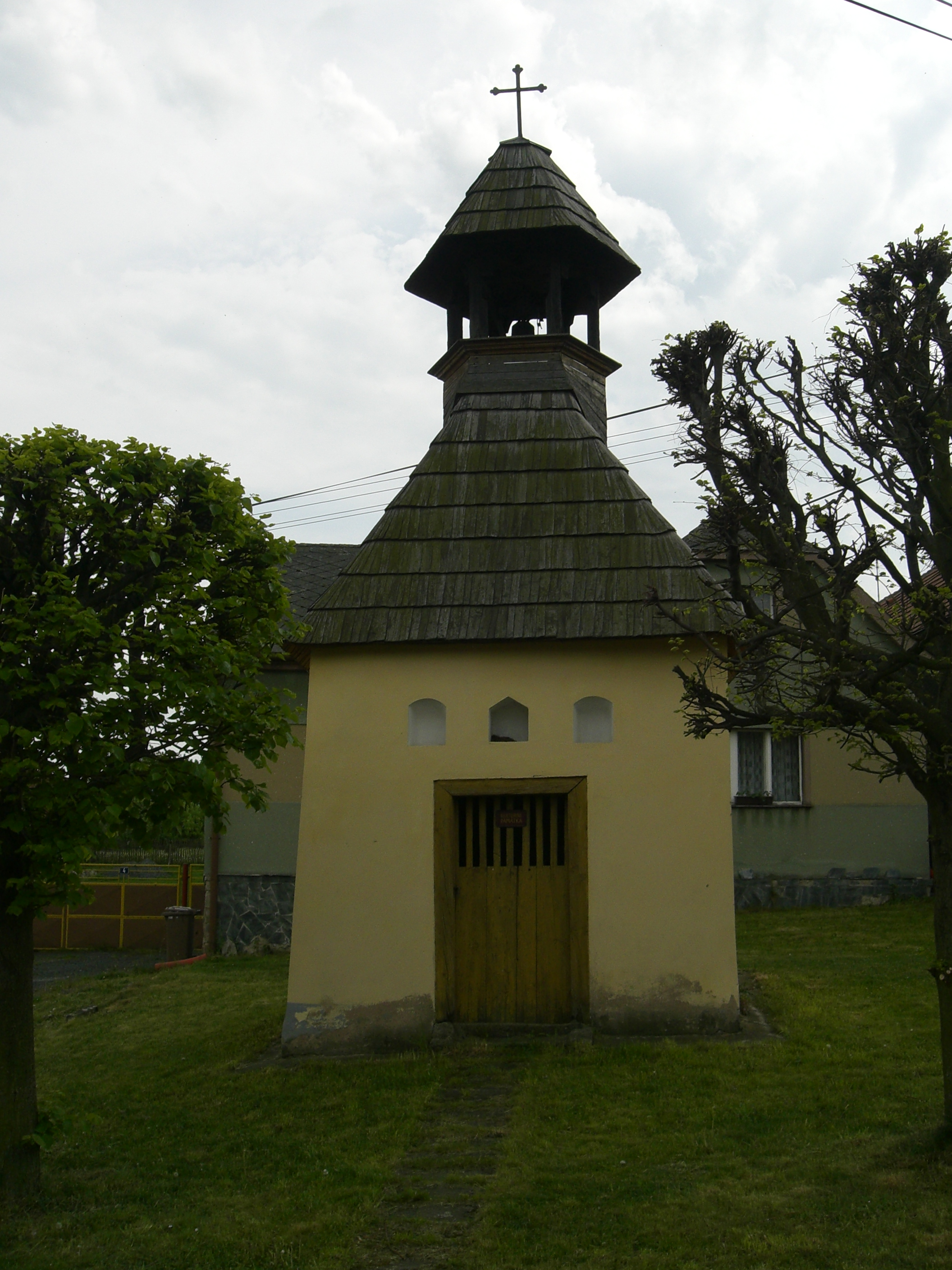 Chrášťovice village in Plzeň district, Czech Republic. Chapel